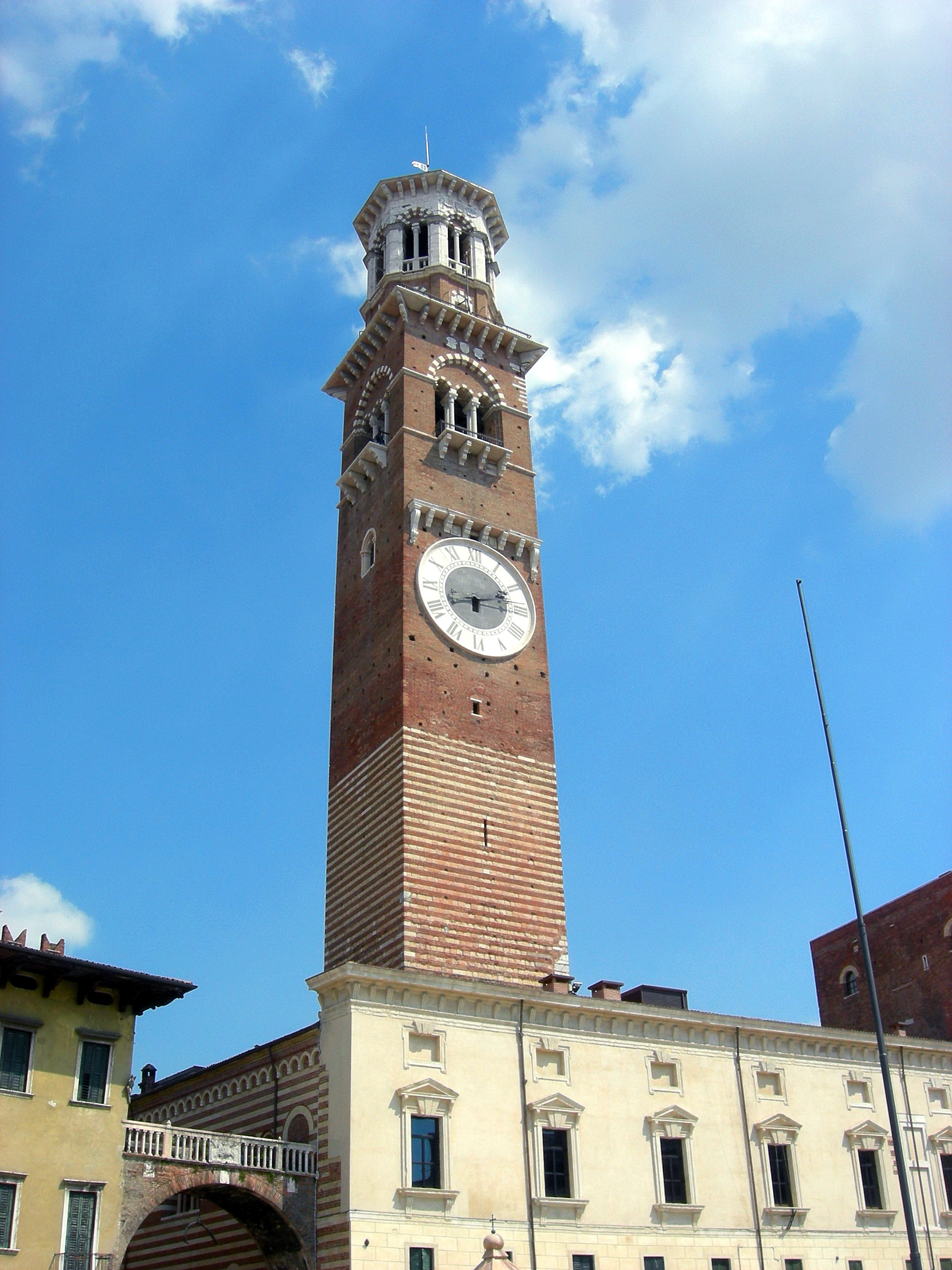 Torre dei Lamberti - Verona